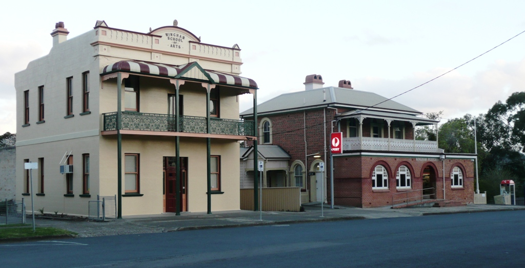 Wingham Post Office and Library, formerly the School of the Arts